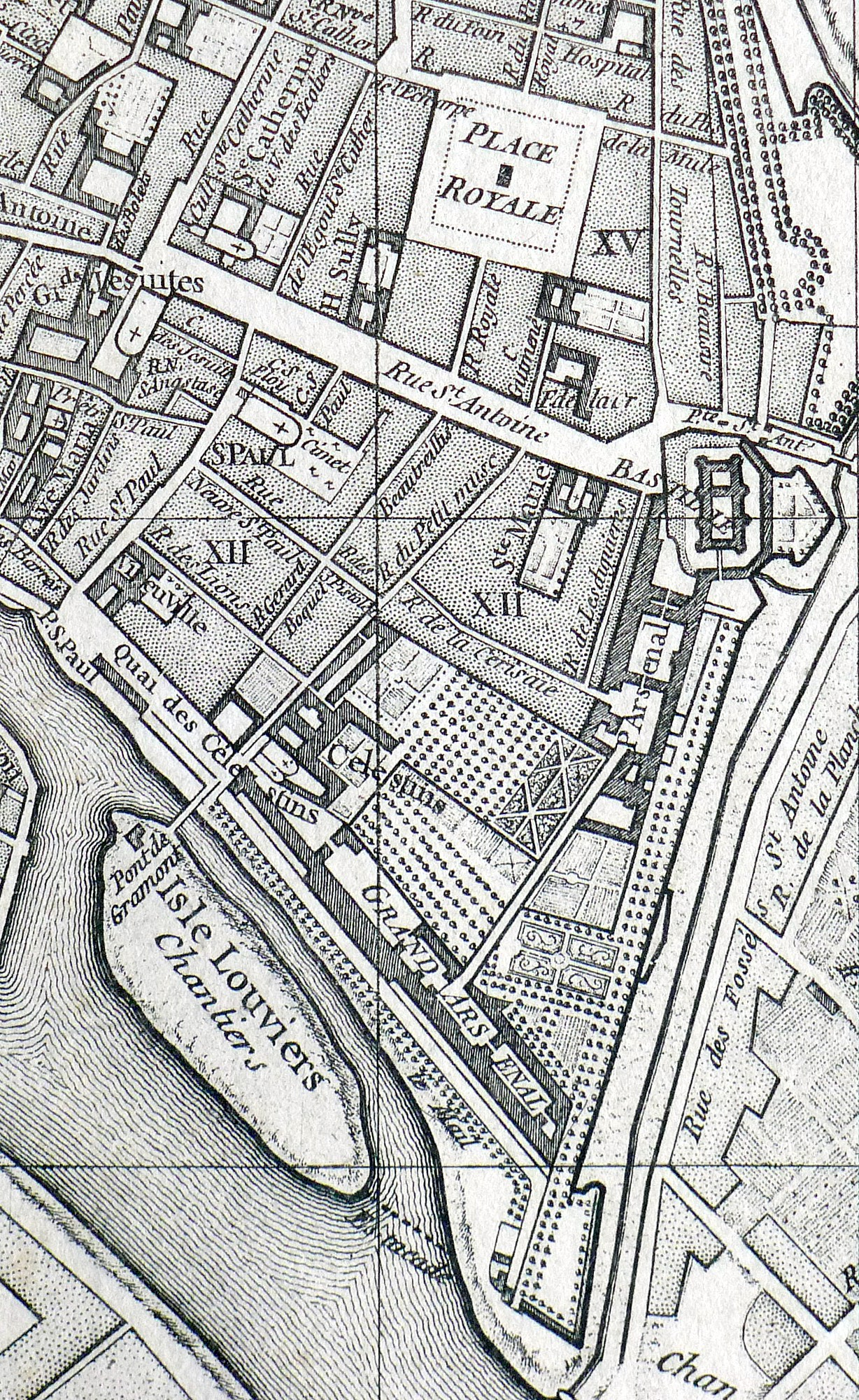 Vaugondy's map of Paris (Arsenal district) - 1760